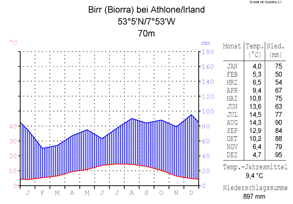 climate chart in the format by Walter and Lieth, metric, °Celsisus and millimeters, made with Geoklima 2.1